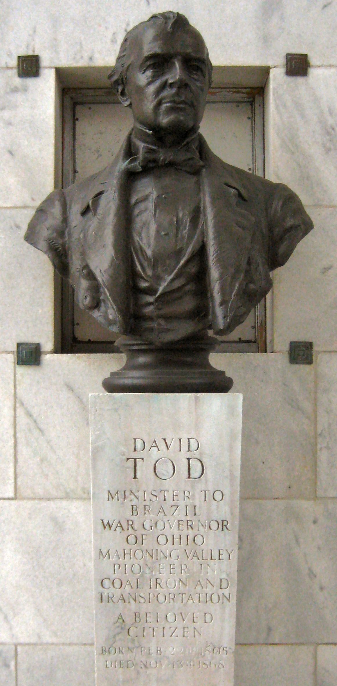 Bust of David Tod inside the National McKinley Birthplace Memorial in Niles, Ohio